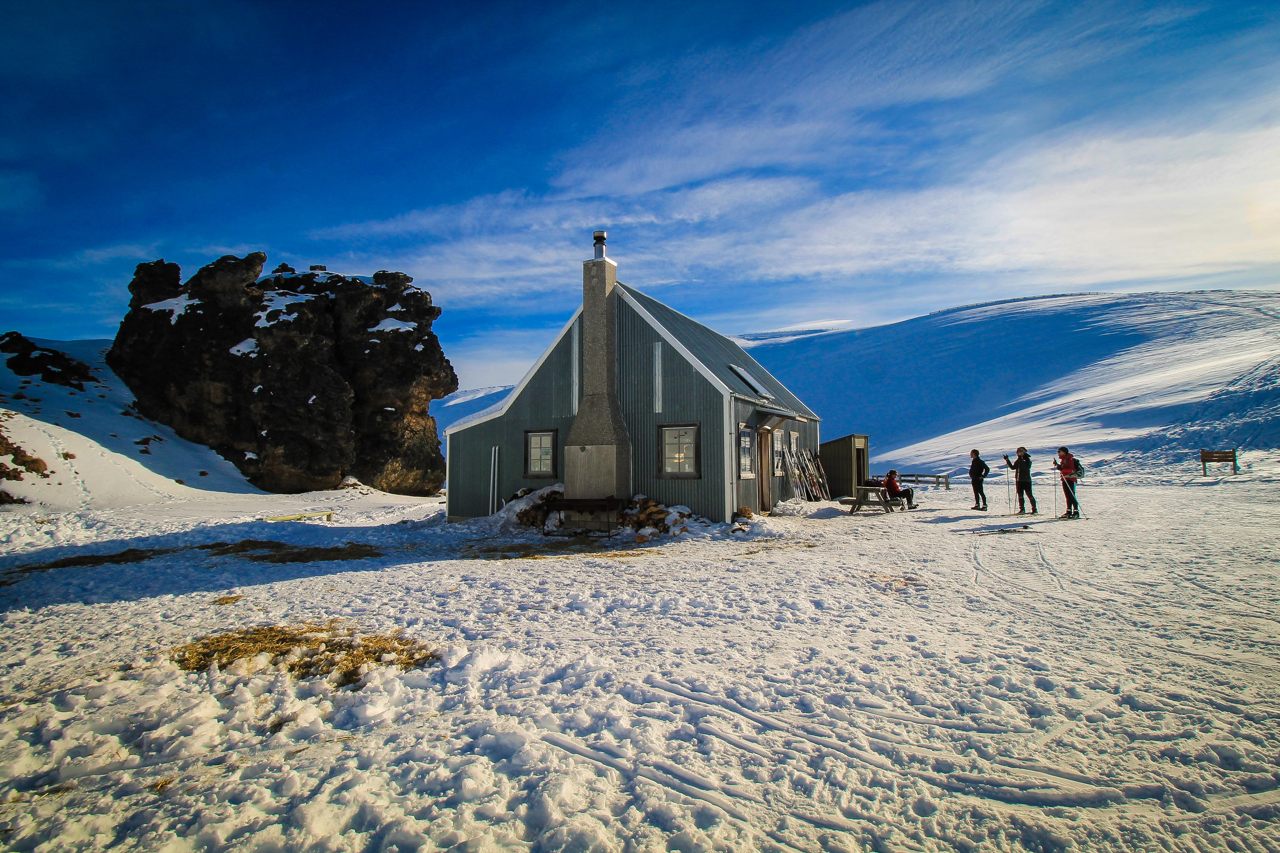 View of Meadow Hut within Snow Farm during winter.